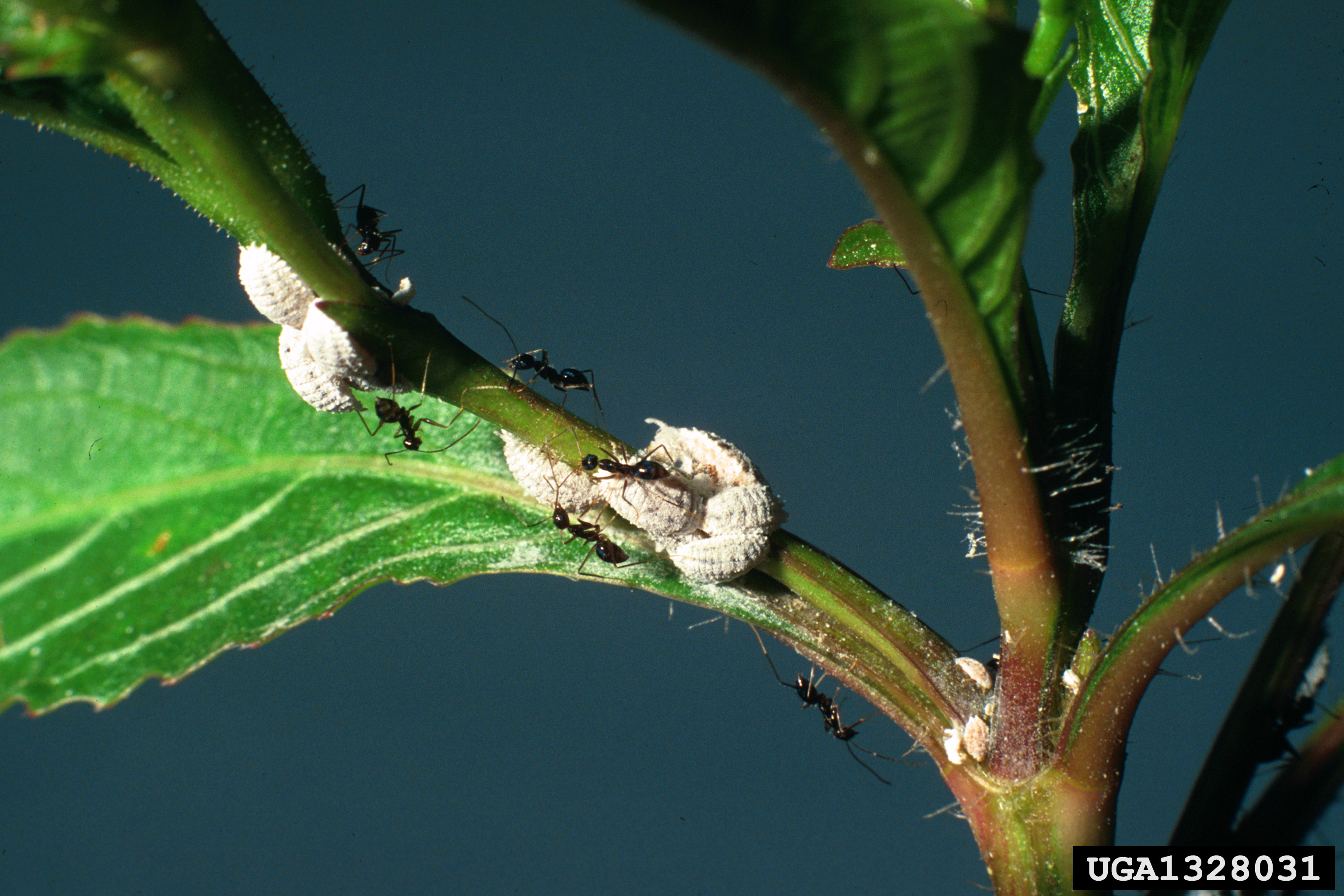 Paratrechina longicornis the ants frequently tend mealybugs and related insects for the sugary honeydew